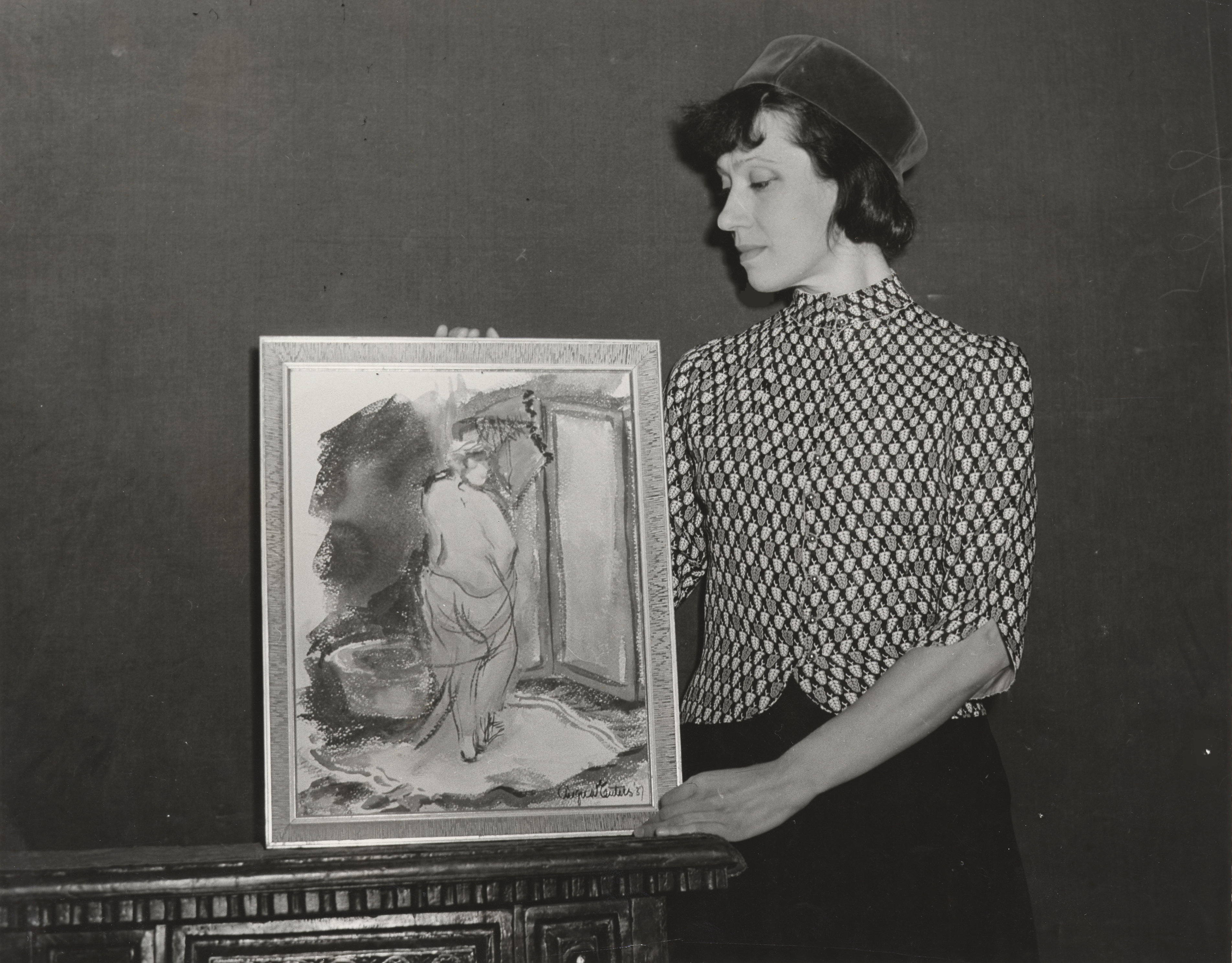 Enters at the New House Gallery, for the Works Progress Administration. Identification on verso (handwritten and stamped): New York City W.P.A. Art Project; Photography Division; 110 King Street Negative No: 5413-2; Date: 11/18/40; Title: Agna Enters, New House Gallery; Location: 15 E 57 St., Man.; Photographer: Herman; W.P. No.: 1; O.P. No.: 65-1-97-2063.